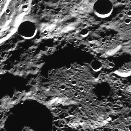 LRO-WAC. Hevesy is the eroded and ejecta flooded crater at center ; Plaskett rim at top left